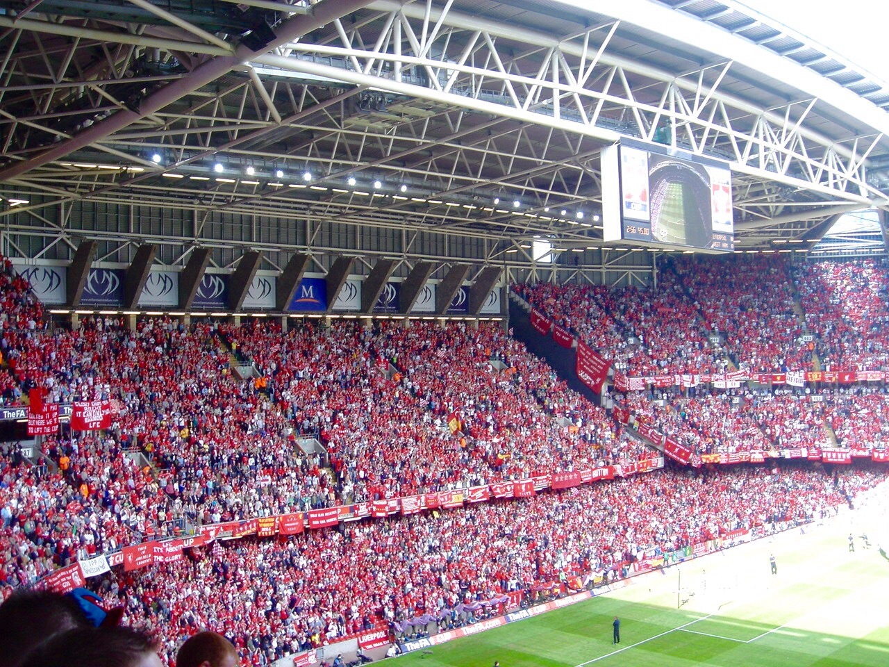 Liverpool supporters during the 2006 FA Cup final in Cardiff.